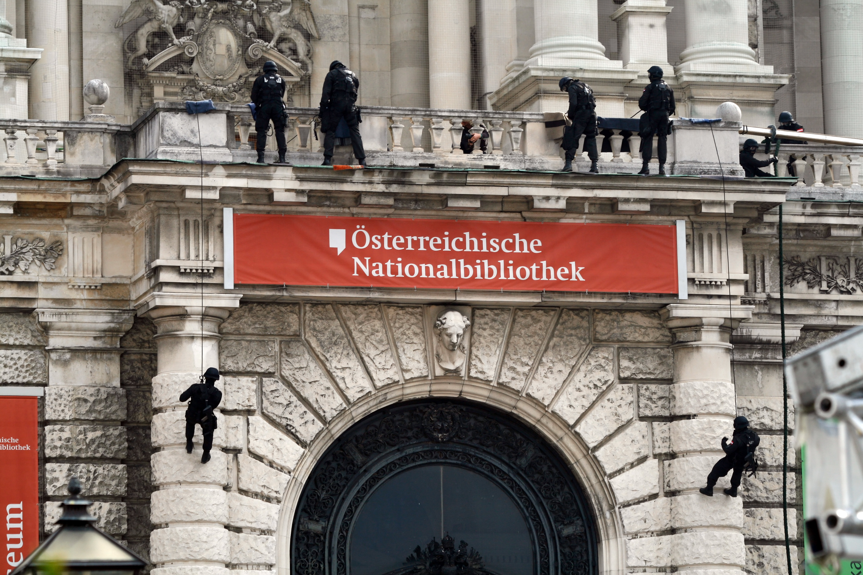 Public demonstration of the EKO Cobra during the Day of Sports on Heldenplatz in Vienna (Hofburg Palace/Austrian National Library).